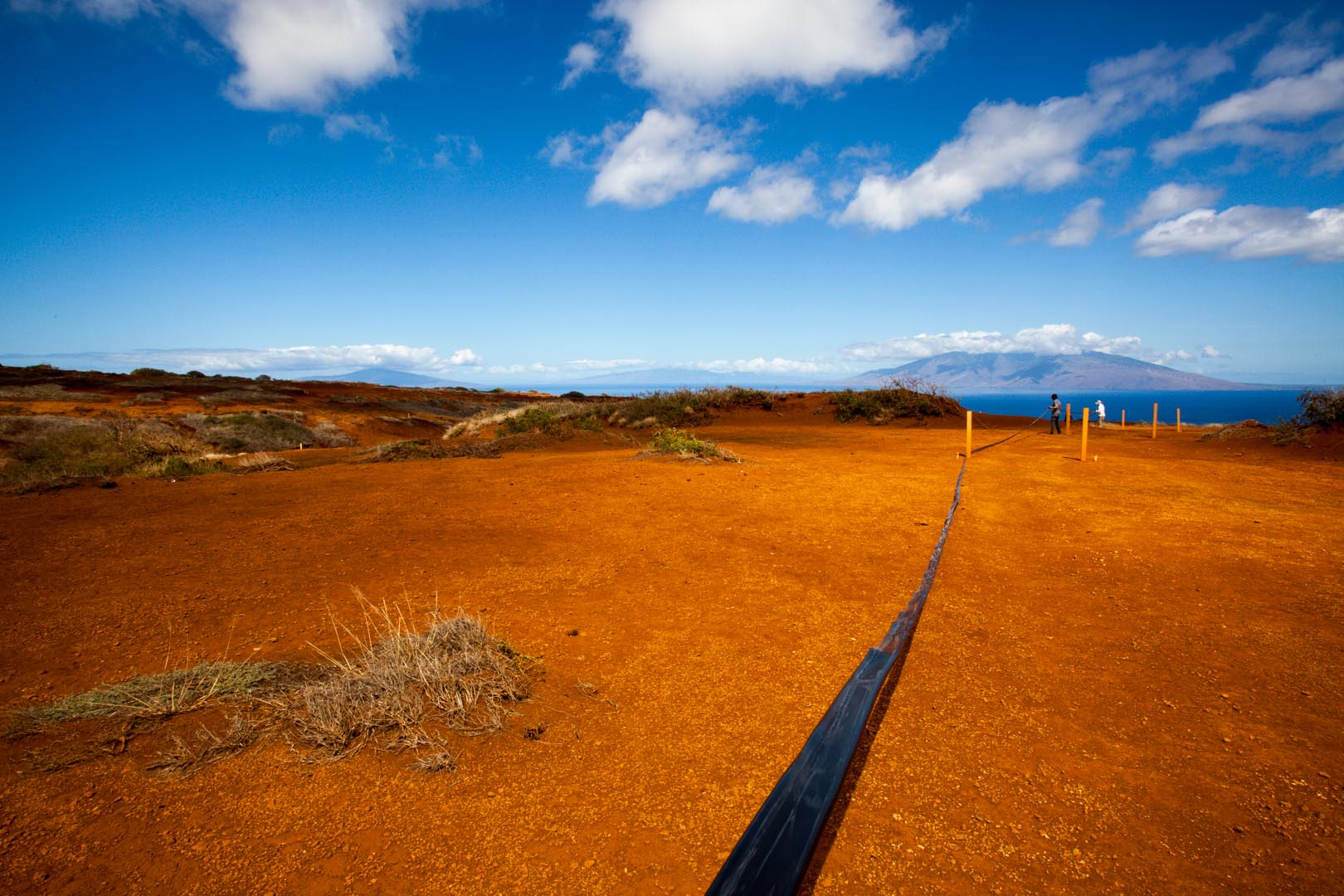 Irrigation tubing running along the red dirt of Kahoolawe as a crew works to plant new life in the hard packed soil.